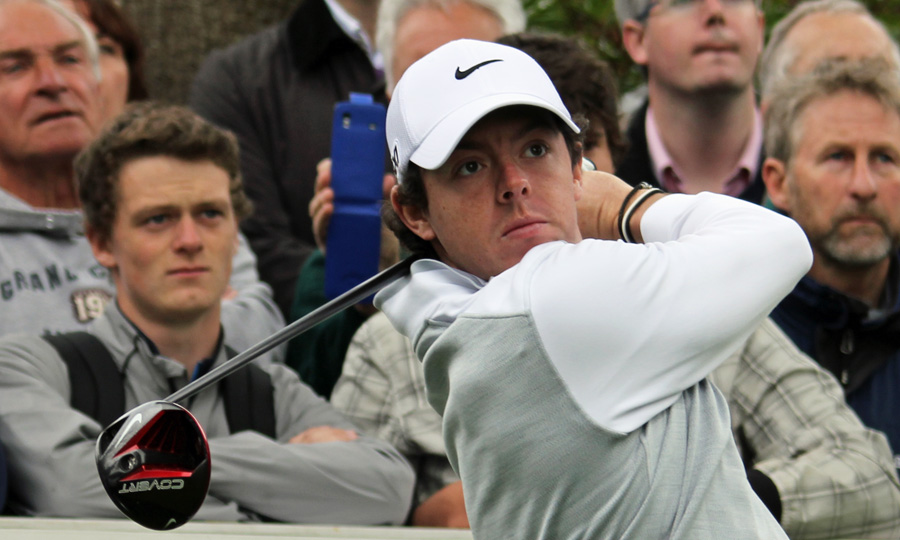 As a small crowd of onlookers watch Rory McIlroy drives during a practice day for the 2013 BMW PGA Championship at Wentworth Club.